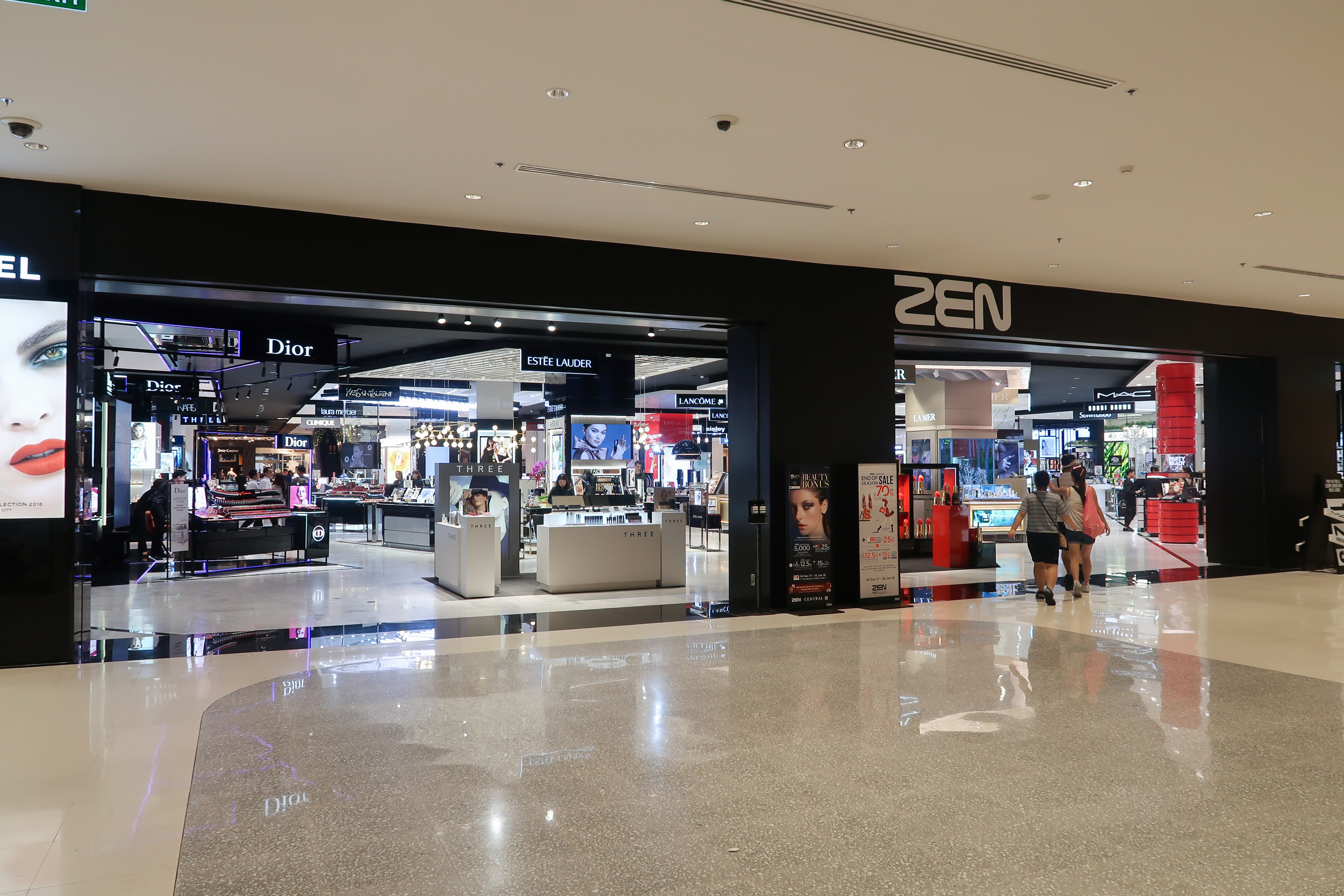 ZEN Central World Level 1